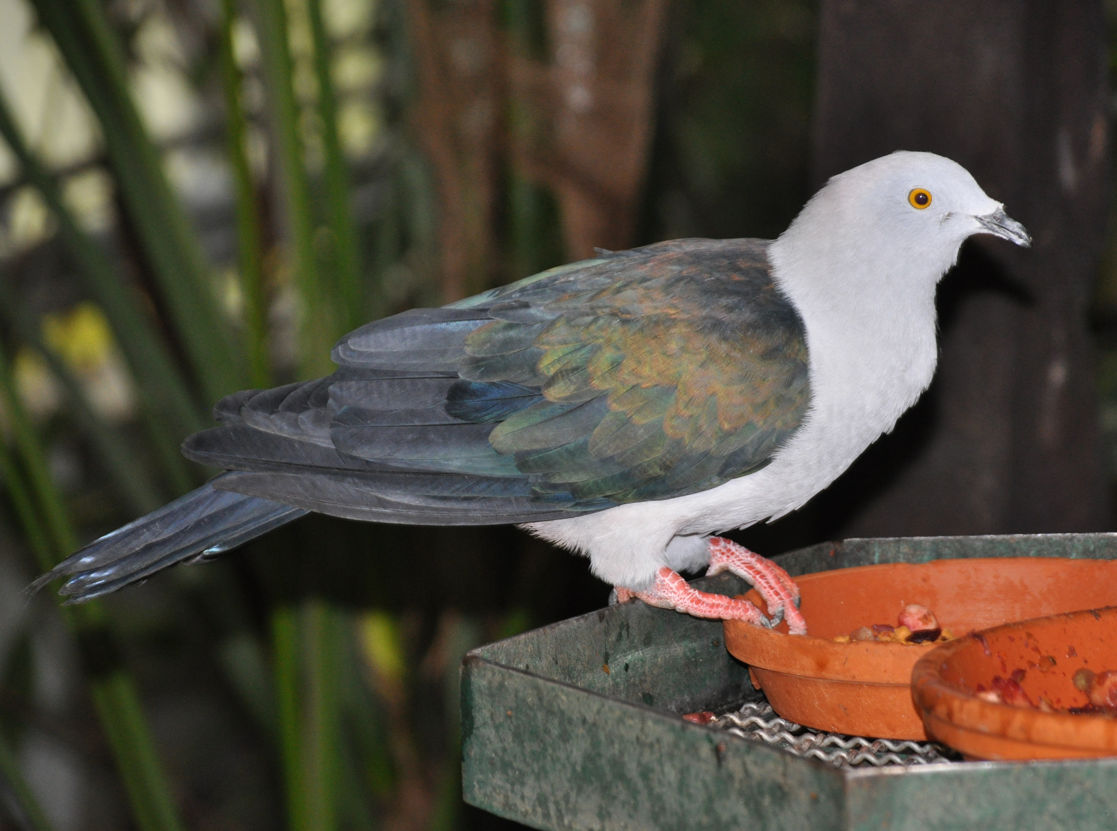 Elegant Imperial Pigeon (Ducula concinna concinna) in the Walsrode Bird Park, Germany.